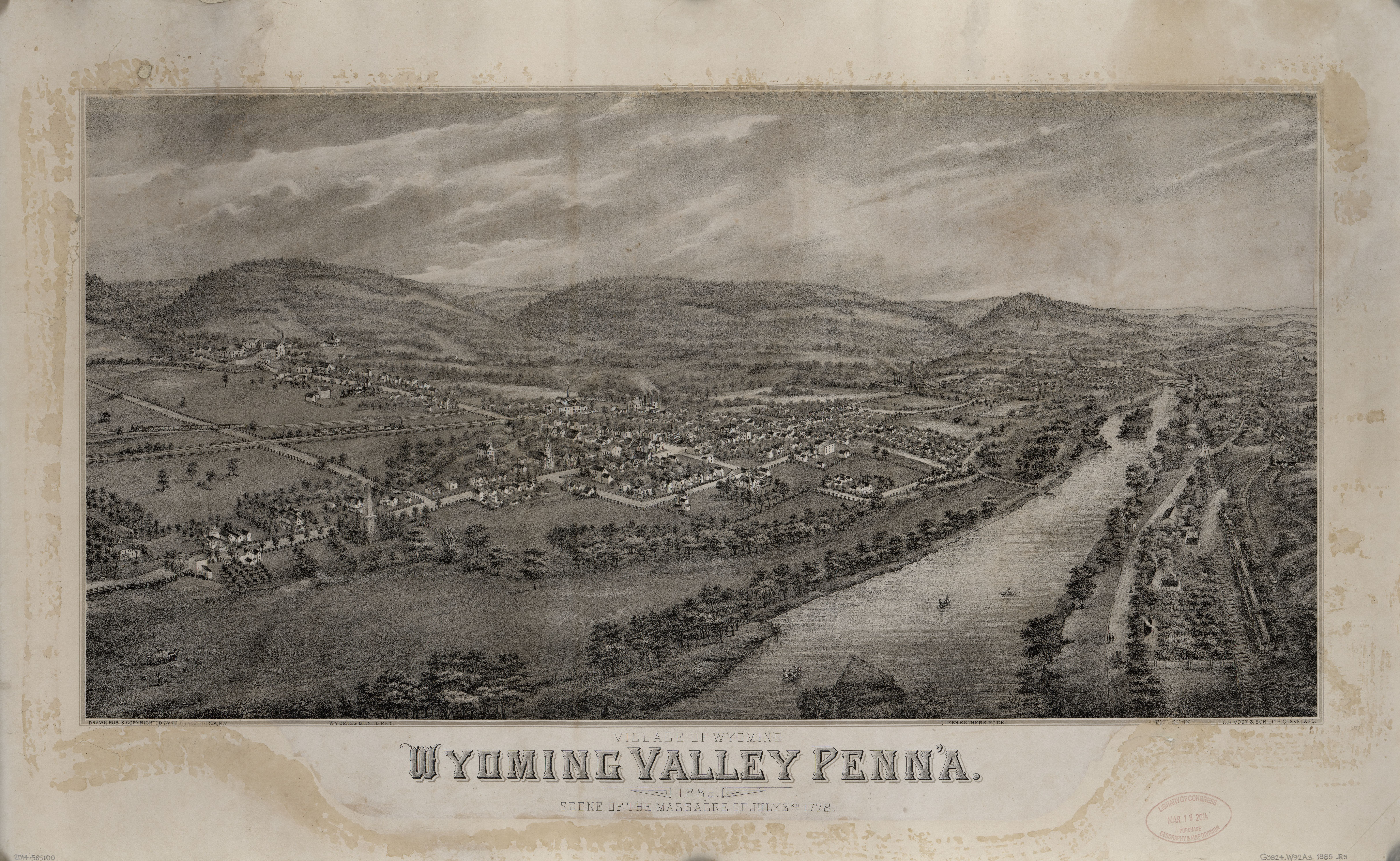 Aerial view of the borough of Wyoming, the Wyoming Valley, and a section of the Susquehanna River northward to horizon. Relief shown by shading and landform drawings. Printed in black and pale gray (outer border and title lettering). LC copy imperfect: Stained (from previous framing) in margins, stain partially obliterates part of statement of attribution, mounted on cloth backing. LC Panoramic maps (2nd ed.), 876.1 Includes captions in lower border: Wyoming Monument -- Queen Esthers Rock -- Pittston. Available also through the Library of Congress Web site as a raster image.